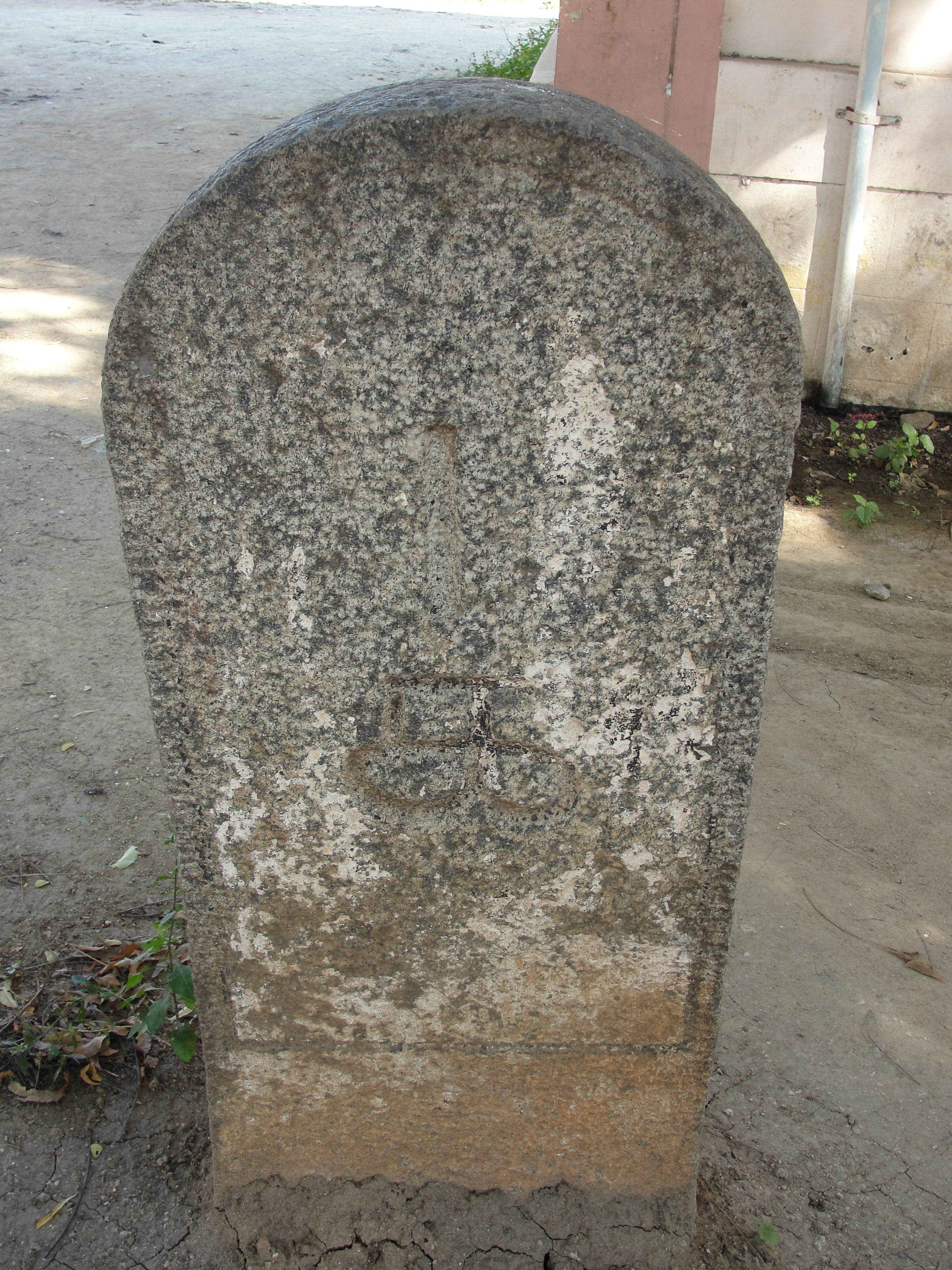 1 in mile stone with Tamil Number 1. Location: Salem district museum, Tamil Nadu, India.